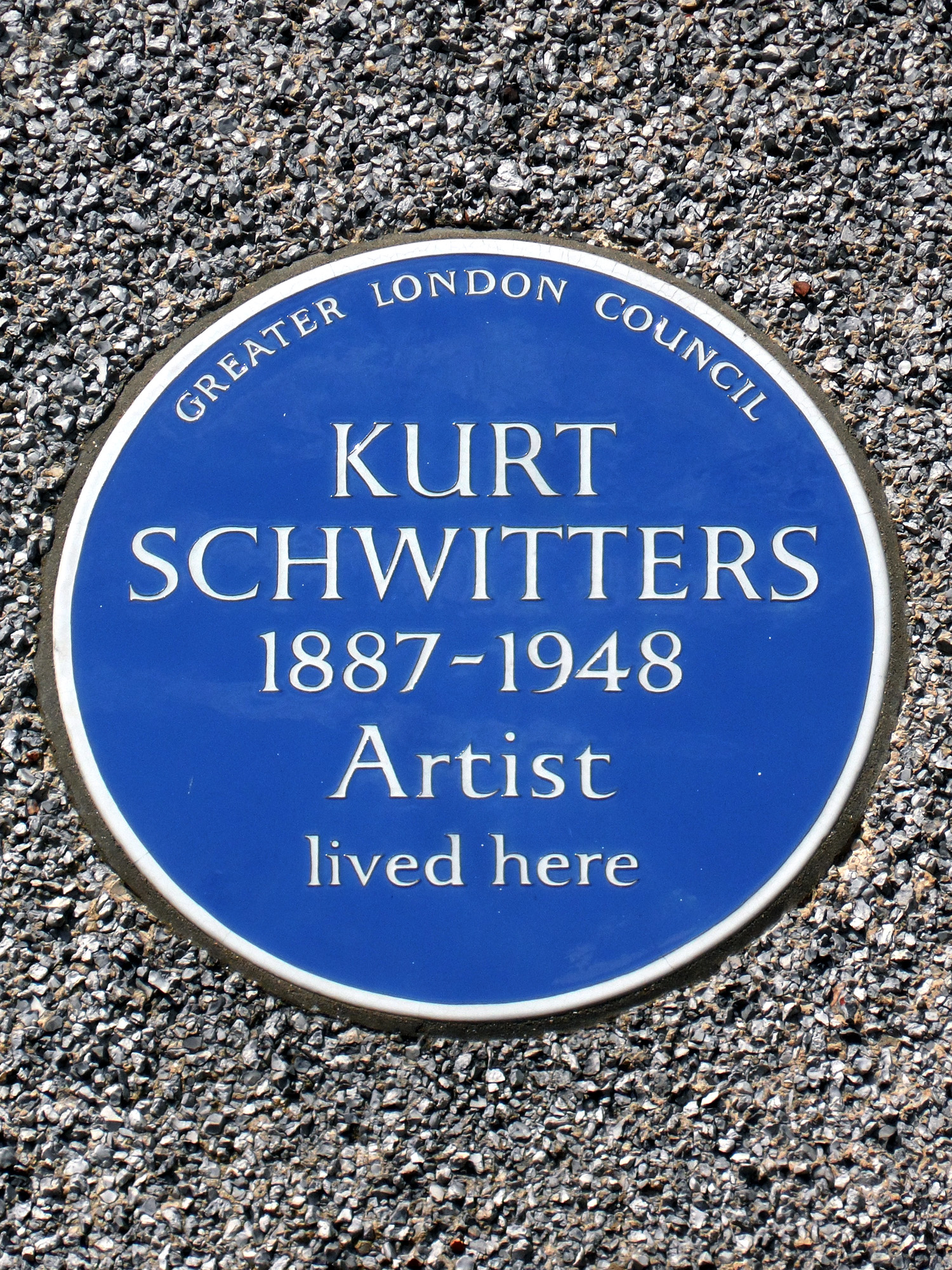 Blue plaque erected in 1984 by Greater London Council at 39 Westmoreland Road, Barnes, London SW13 9RZ commemorating Kurt Schwitters